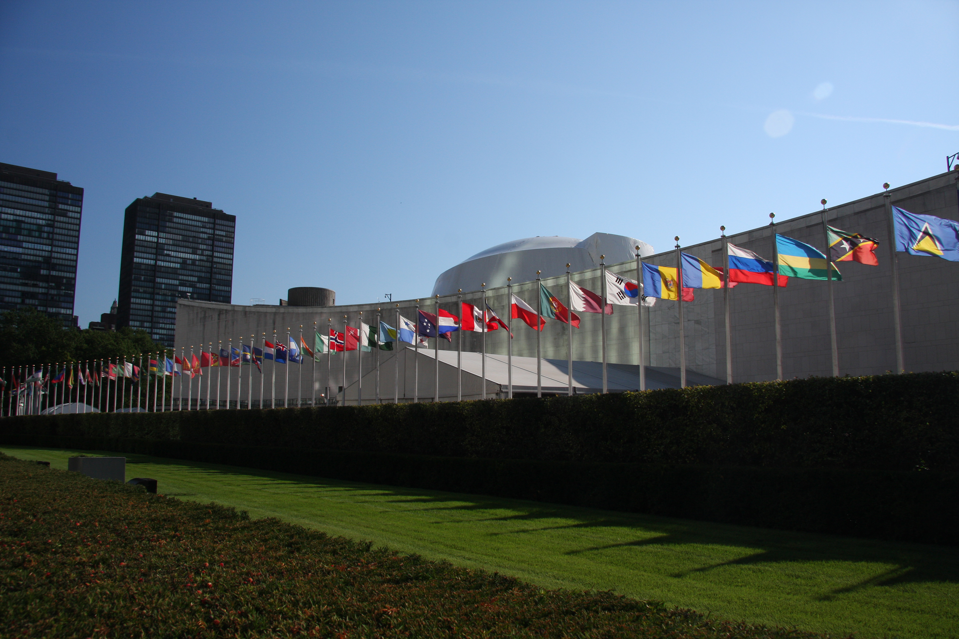 Row of flags in front of the UN General Assembly building, Manhattan, New York.